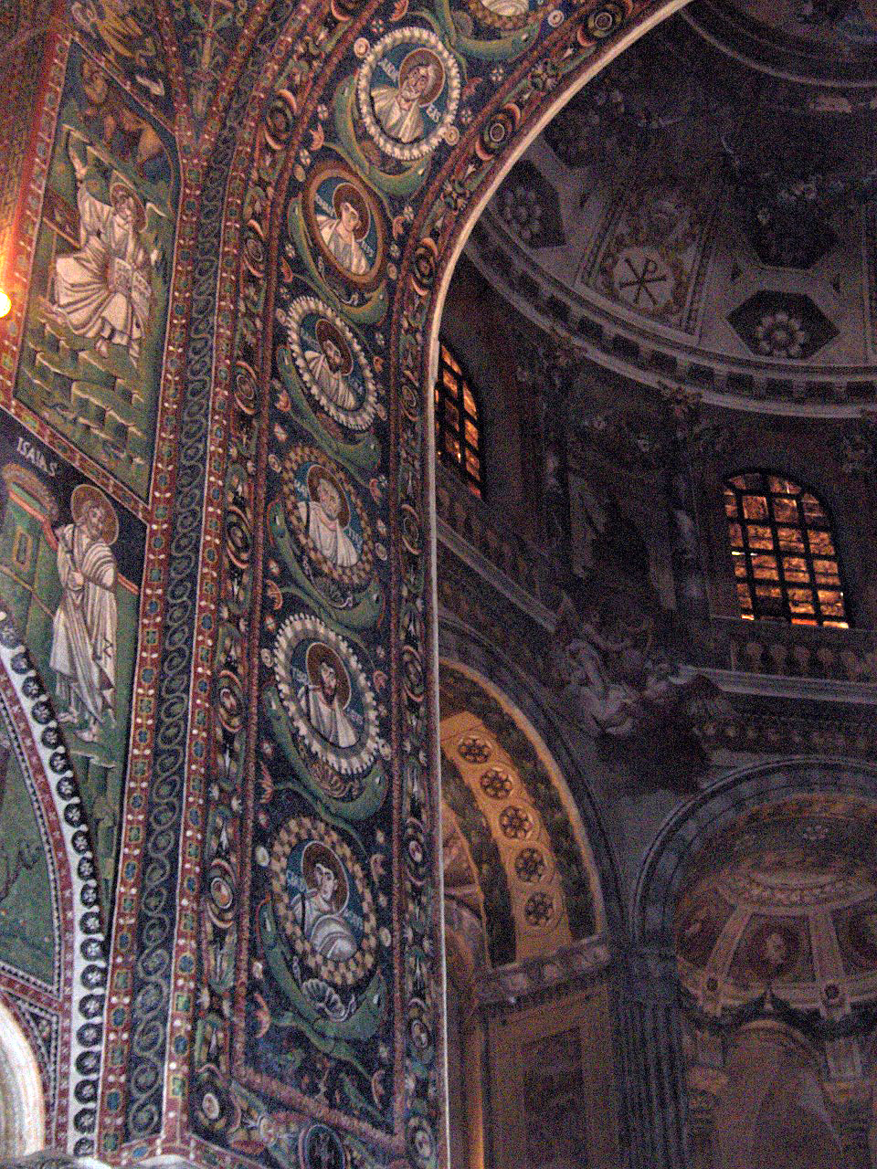 Intrados of the choir arch (with the 12 Apostles); Basilica of San Vitale in Ravenna, Italy